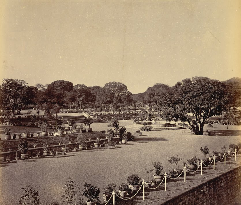 Photograph of the Bund Gardens in Pune from the 'Lee-Warner Collection: 'Bombay Presidency. William Lee Warner C.S.' taken by an unknown photographer in the 1870s. The Bund Gardens lie on the bank of the river near to a bund or dam. The gardens were financed by the businessman and philanthropist Sir Jamsetjee Jeejeebhoy (1783-1859). They are now known as the Mahatma Gandhi Udyan.